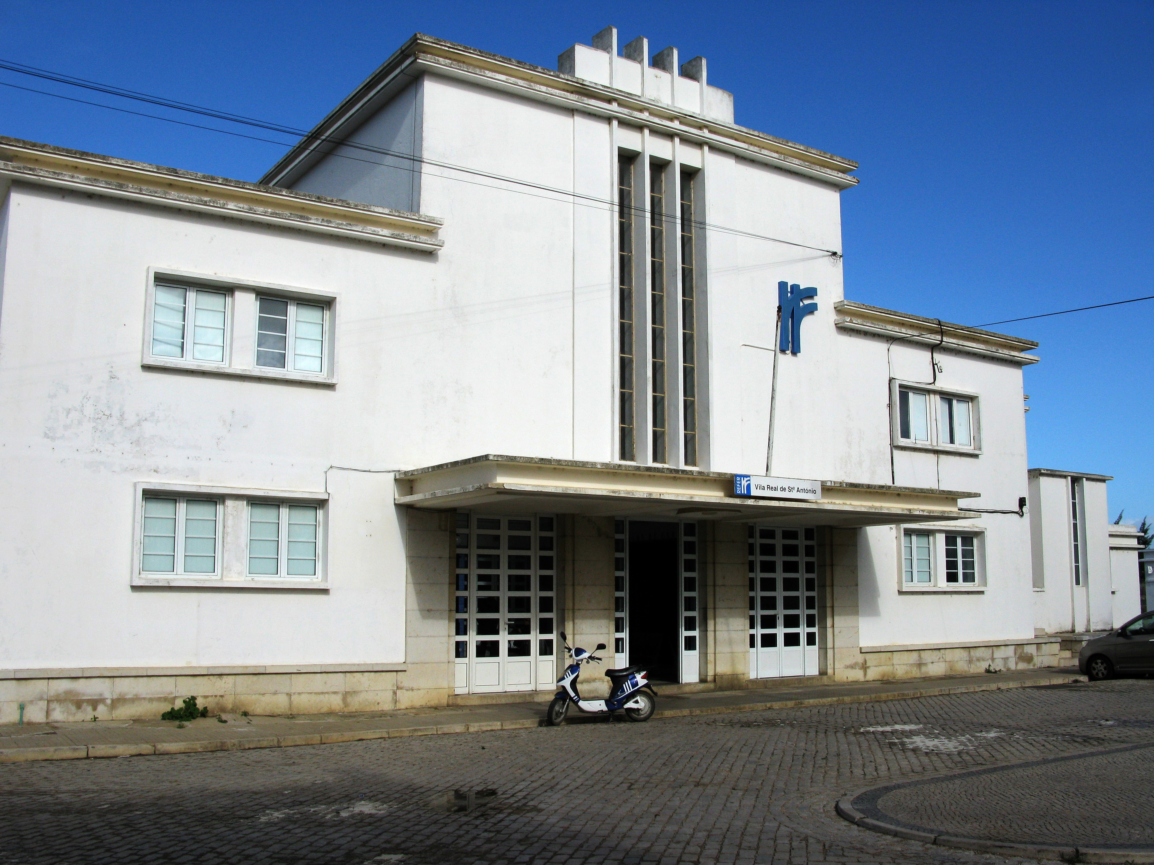 Vila Real de Santo António. Railway station, November 2014.